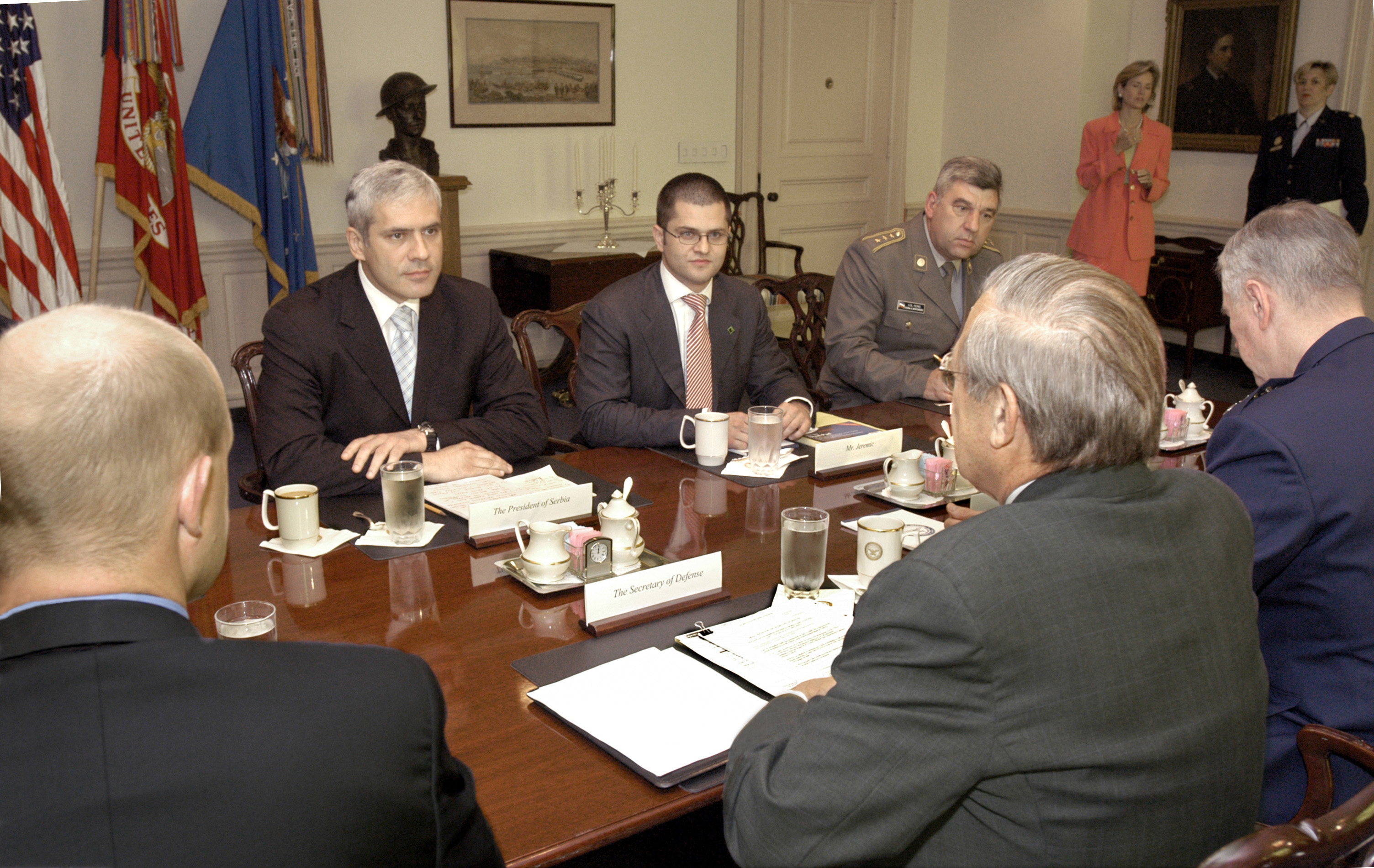 President Boris Tadic (left) of Serbia and Montenegro meets with Secretary of Defense Donald H. Rumsfeld (foreground) in the Pentagon on July 20, 2004. The two men are discussing a range of regional security issues in concert with their senior policy advisors. Joining Tadic and Rumsfeld in the talks are Foreign Policy Advisor to the president Vuk Jeremic (center), Serbian Embassy military attaché Col. Milorad Peric (right), Deputy Assistant Secretary of Defense for European and NATO Policy Ian Brzezinski (left foreground), and Chairman of the Joint Chiefs of Staff Gen. Richard B. Myers (right), U.S. Air Force.